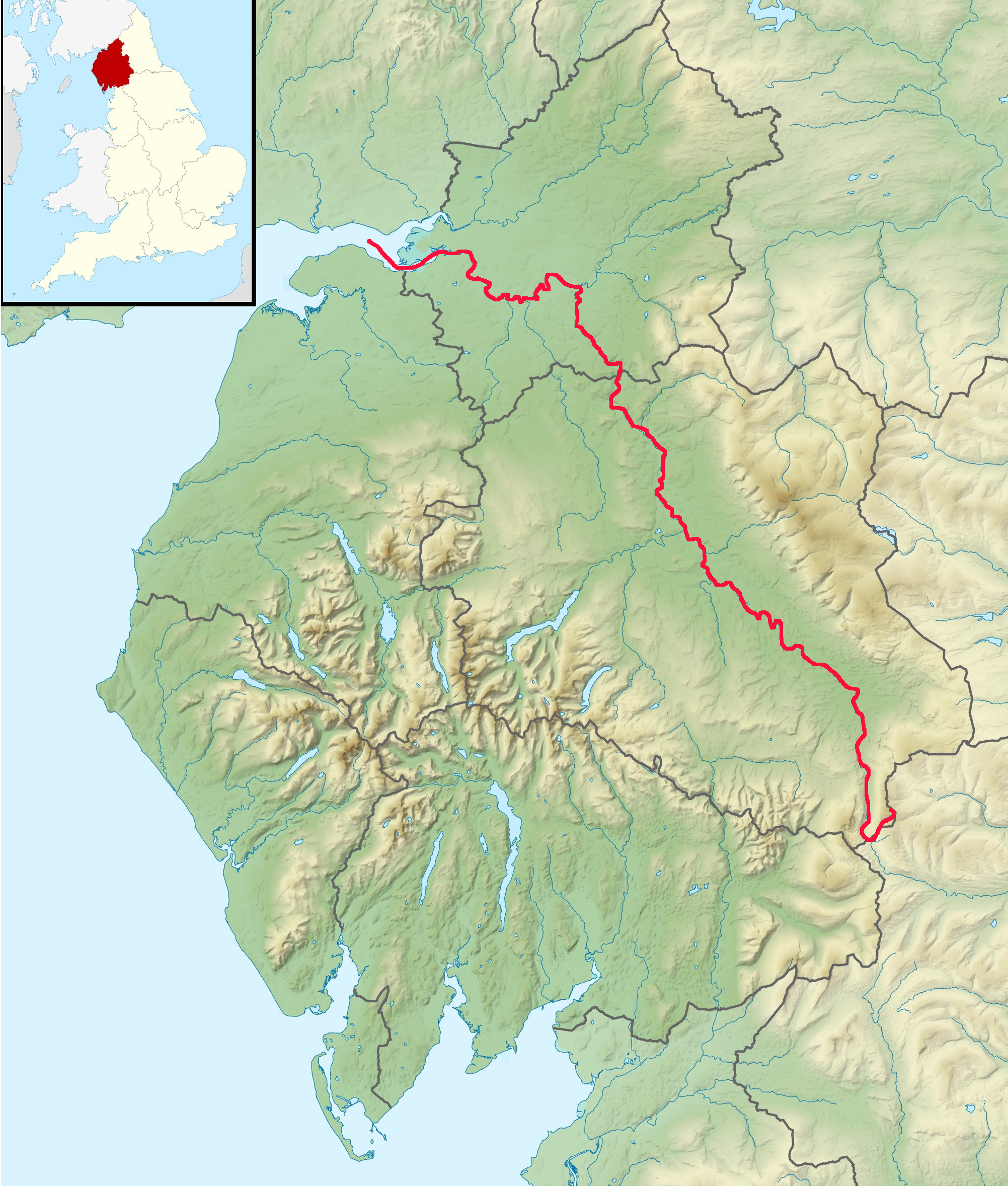 The River Eden, in Cumbria This map may be incomplete, and may contain errors. Don't rely solely on it for navigation.